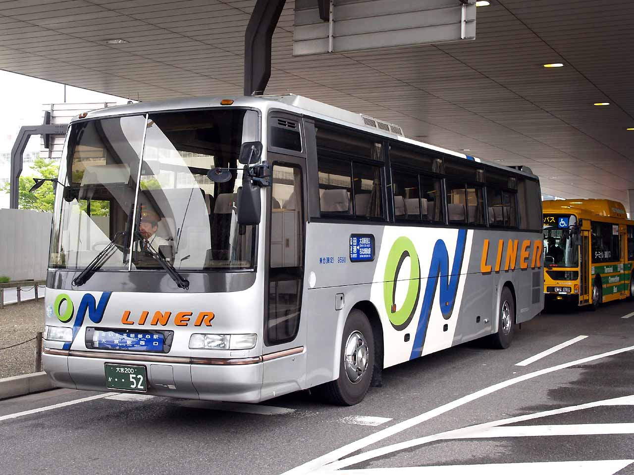 Former fleet of "ON Liner", airport bus between Omiya, Saitama and Narita International Airport. In autumn 2008, converted to Tobu Bus Nikko for fleet replacement. Model: Hino Selega FD KC-RU3FSCB License plate: STO200 KA0052 since autumn 2008: TGU200 KA0994 Place: Narita International Airport: Narita City, Chiba Japan